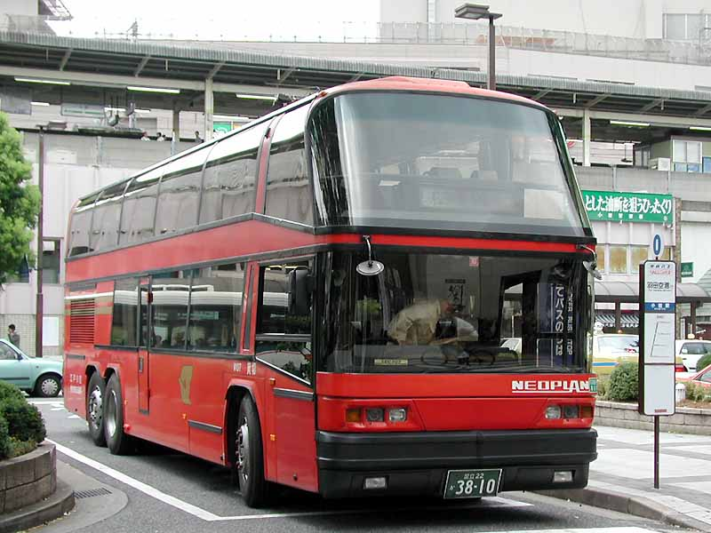 Neoplan Skyliner at JR Koiwa station. Toei Bus and Keisei Bus operated Neoplan Skyliner for "Nikai 02 route" between Kasai Rinkai Park and JR Koiwa Station via Kan-nana street in Edogawa, Tokyo, from October 1989 to August 2000. License plate: TKA22 KA3810 Own number: R-V107 (Toei Bus Rinkai Dept.) Place: JR Koiwa Station, Edogawa Ward, Tokyo Japan